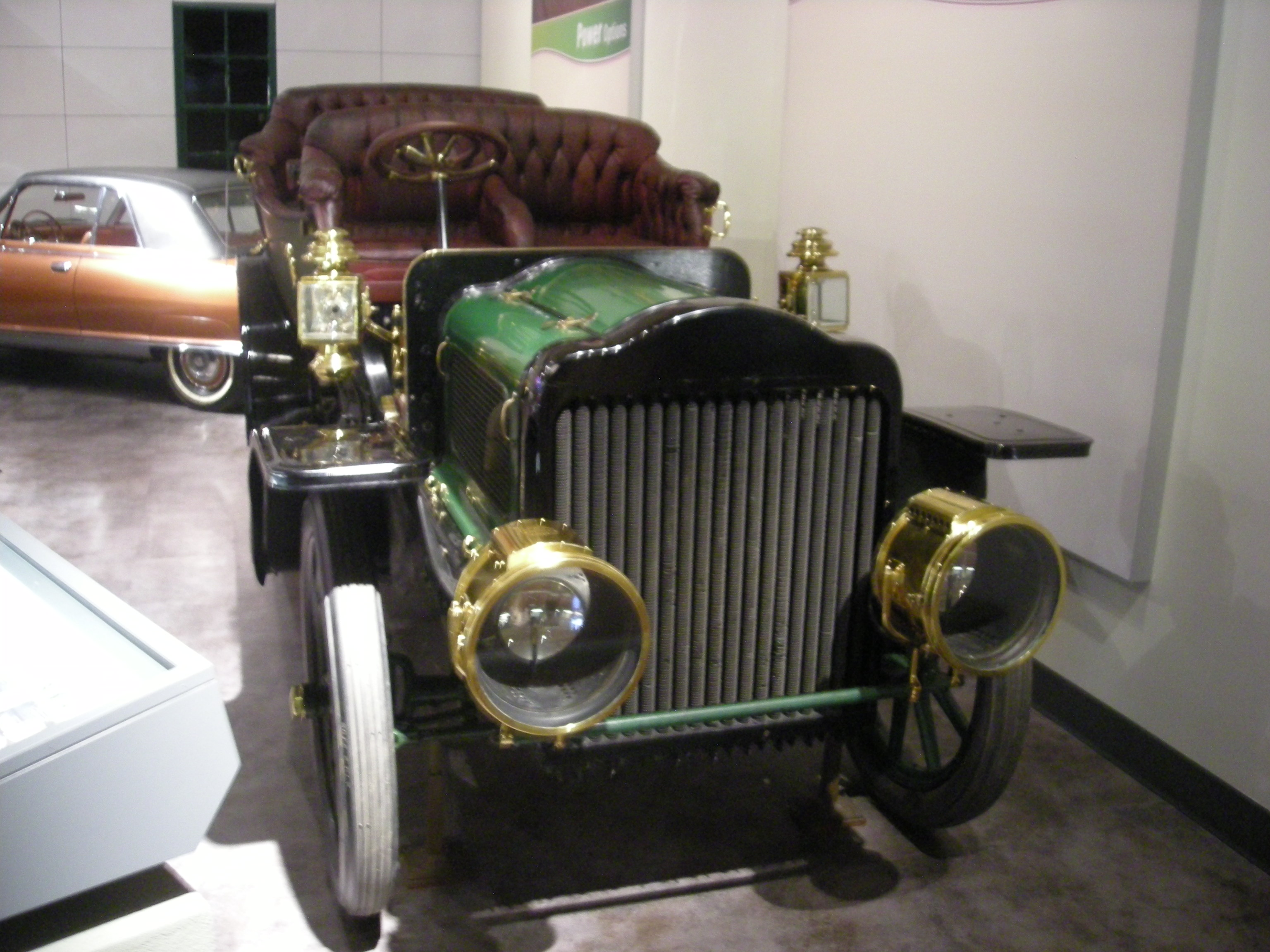 A 1907 White Model G steam touring car on display at the Henry Ford Museum in Dearborn, Michigan (United States).